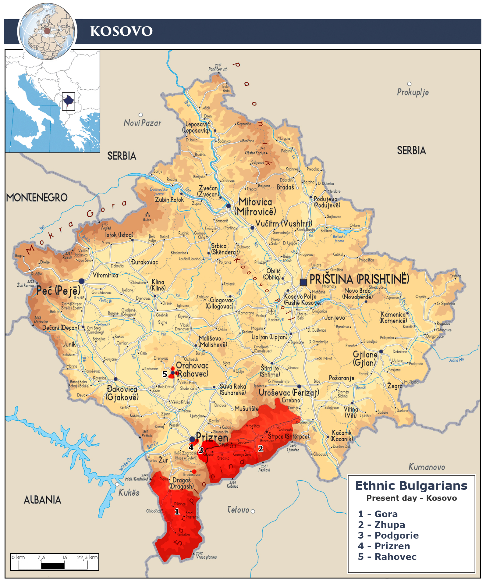 Map of the five regions Gora, Zhupa, Podgorie, Prizren and Rahovec in Kosovo, where Bulgarians mainly live today.